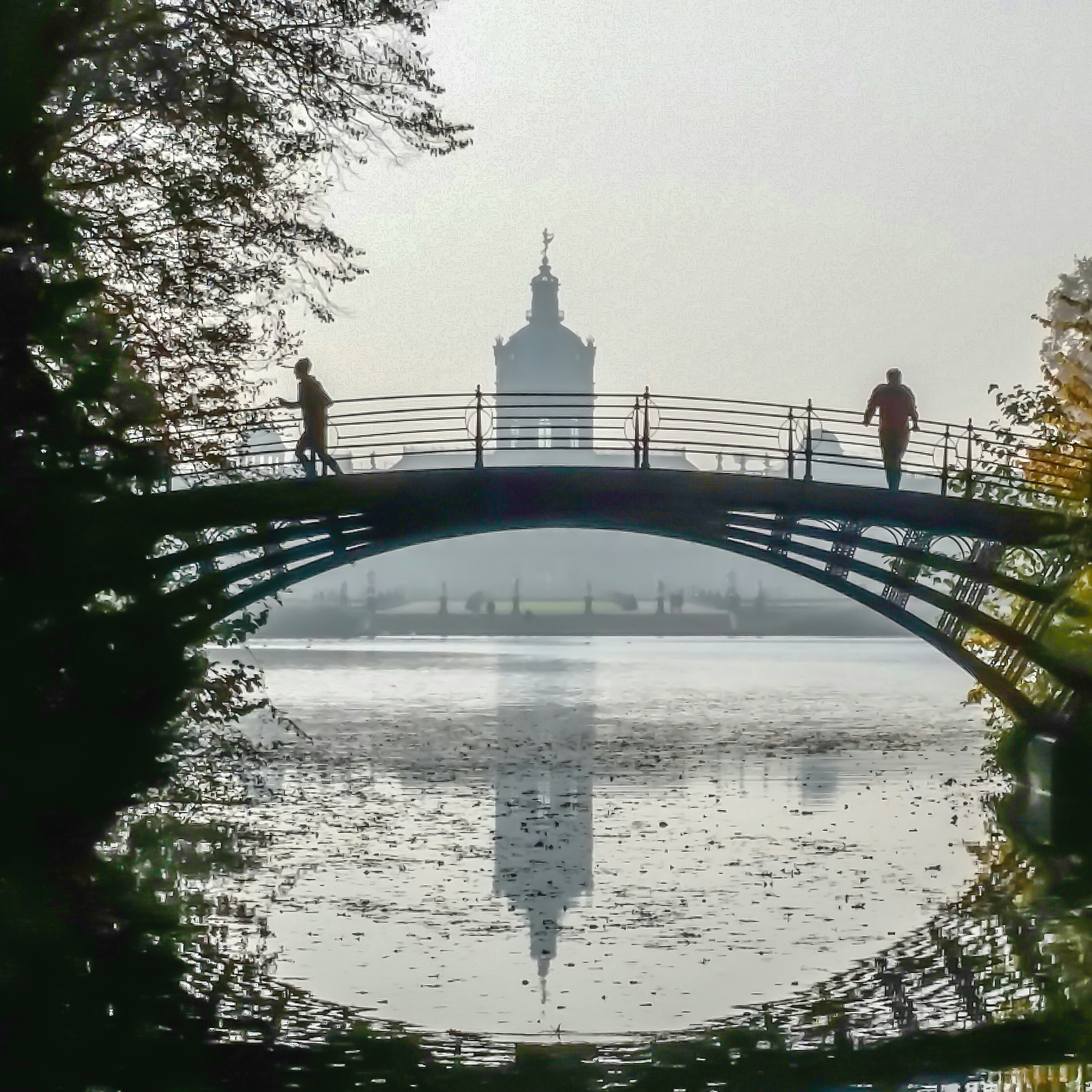 Charlottenburg Palace